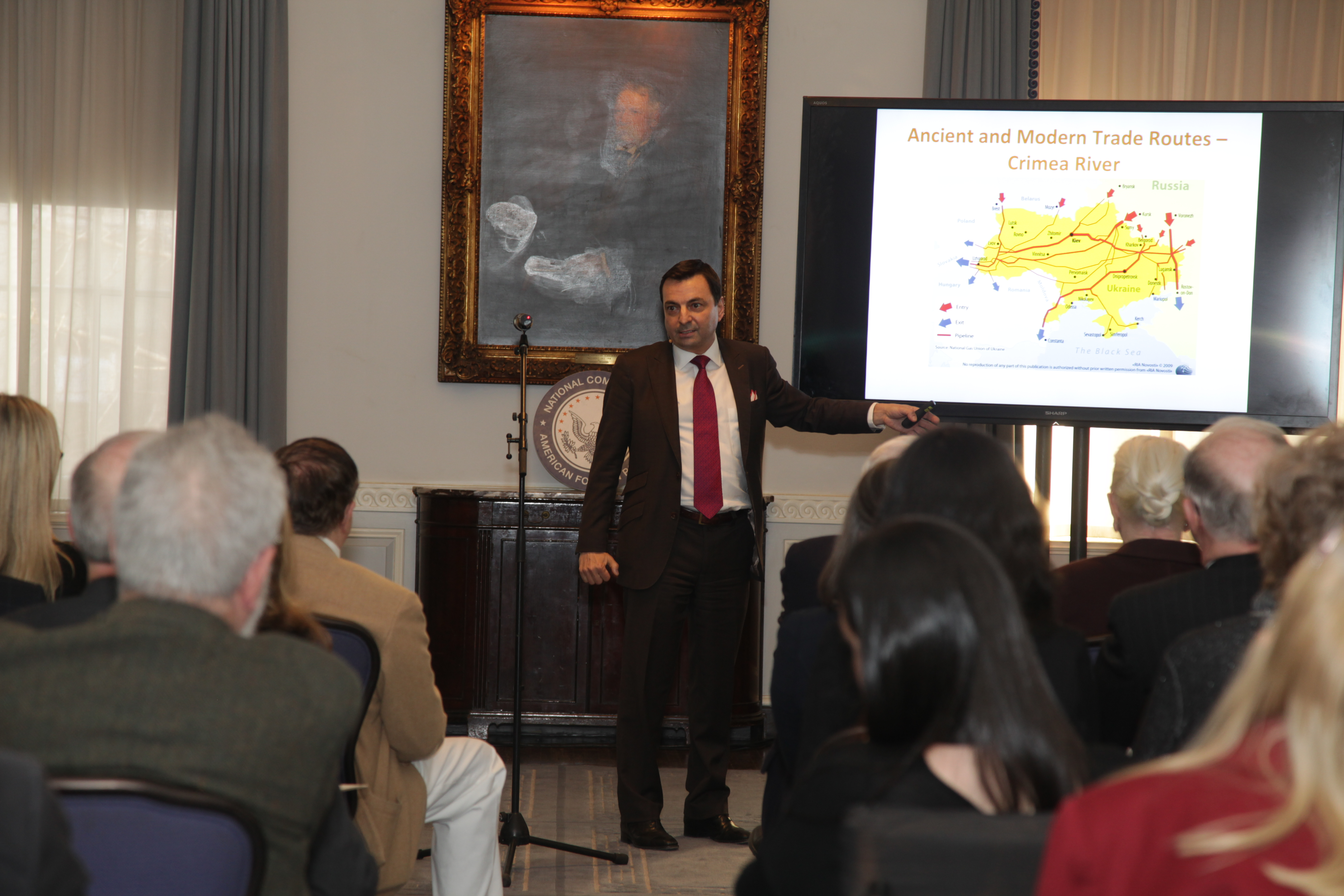 Mr. Murat Koprulu delivers "Turkey at a Historic Crossroads" lecture as part of the George D. Schwab Foreign Policy Briefings series hosted by The National Committee on American Foreign Policy.